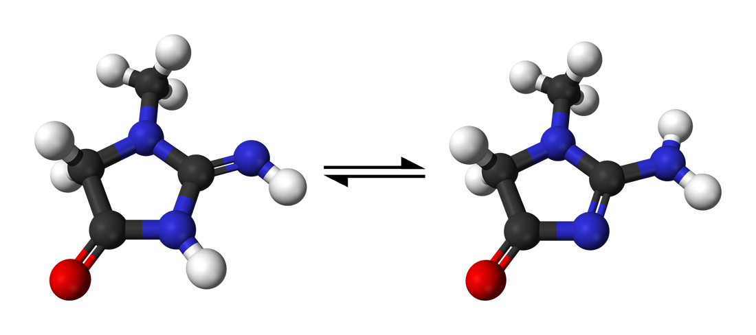 Ball-and-stick models of the two tautomers of creatinine